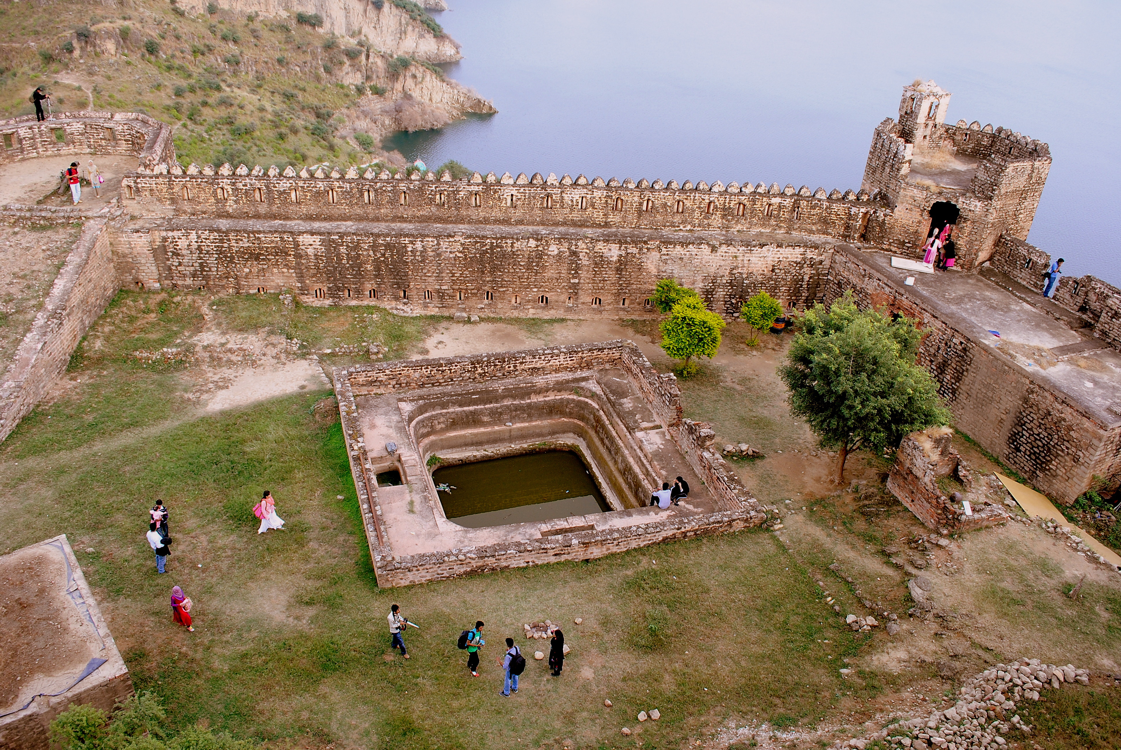 Ramkot Fort This is a photo of a monument in Pakistan identified as the AJK-13